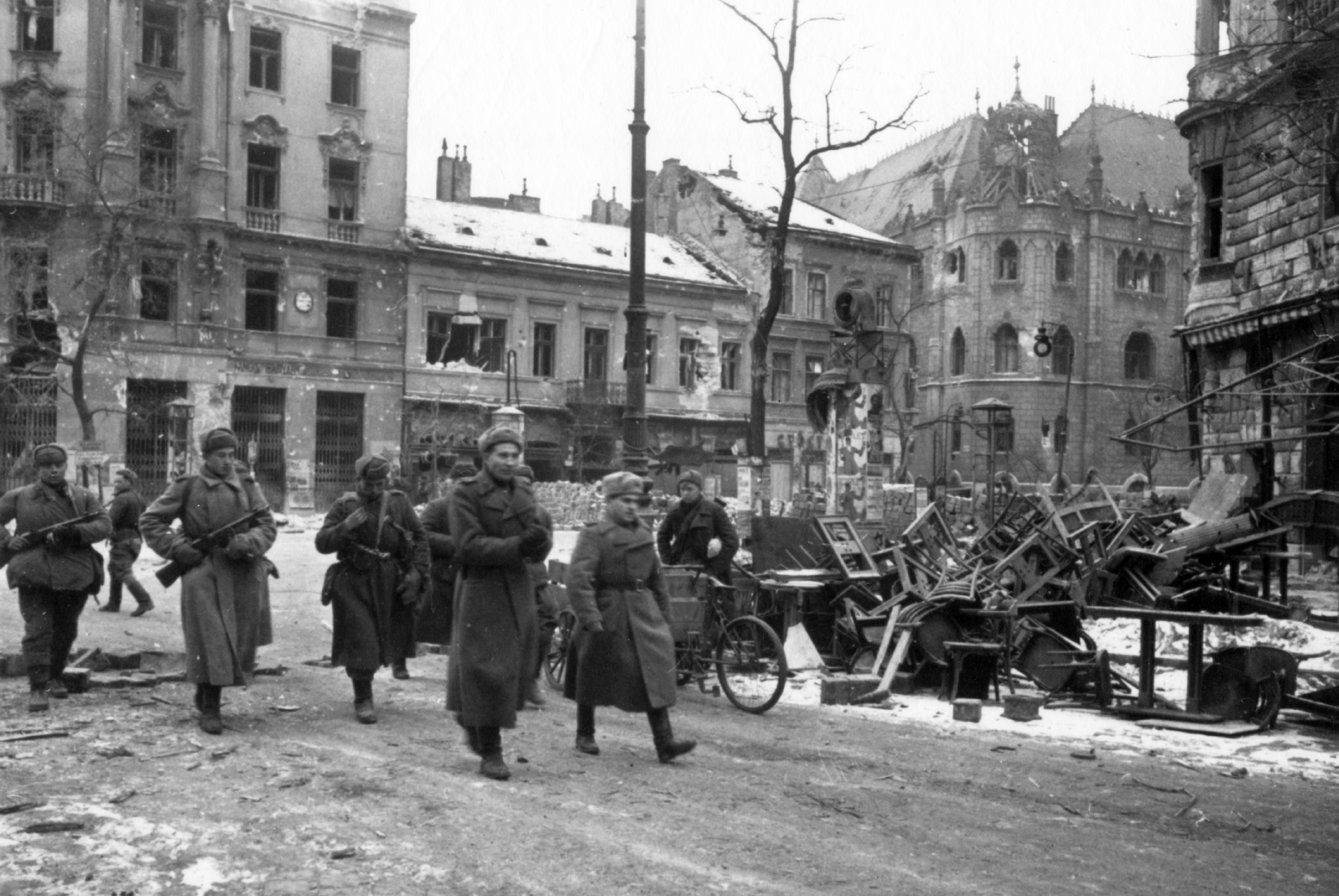 Soviet soldiers in Budapest